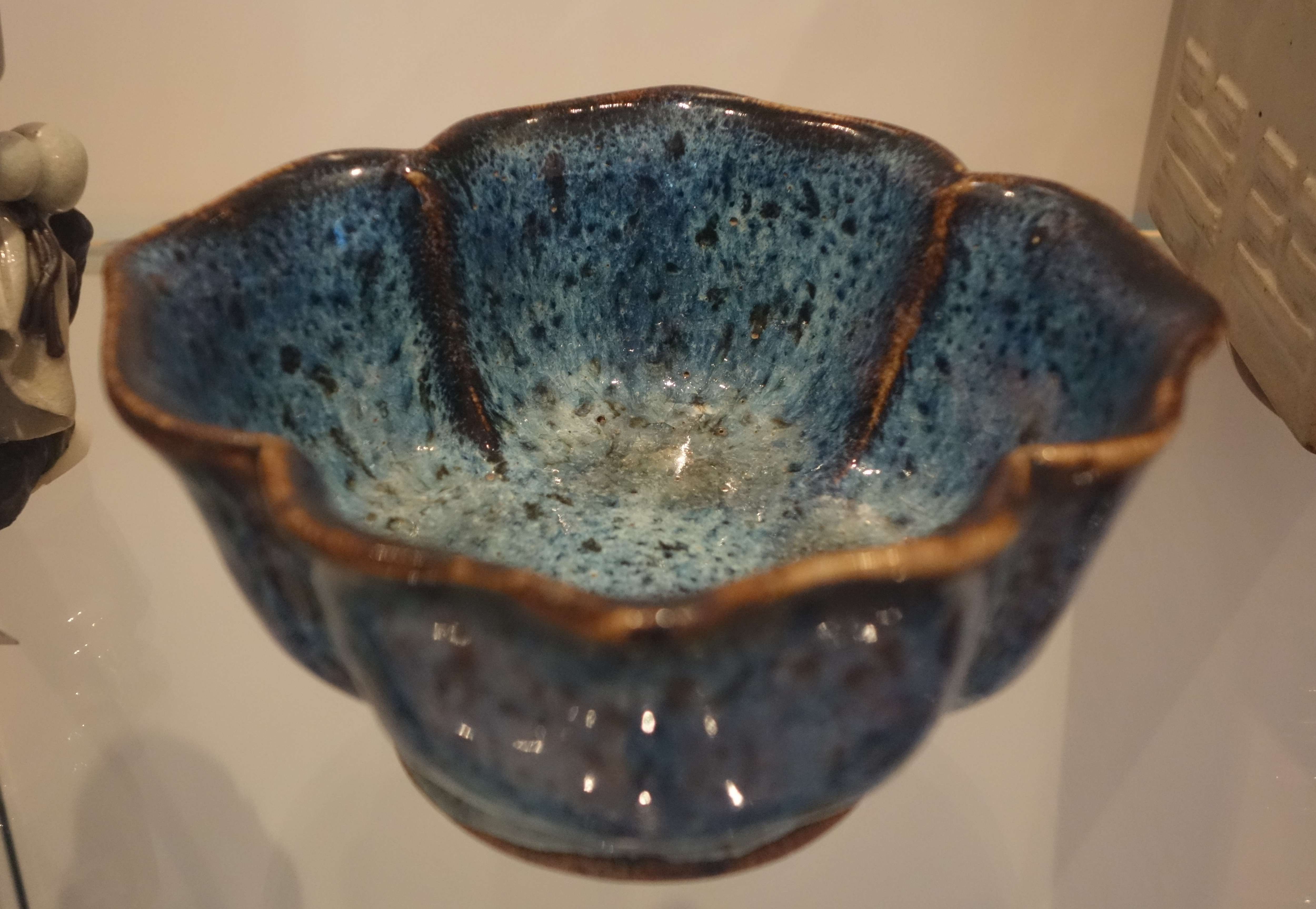 Exhibit in the Royal Ontario Museum, Toronto, Ontario, Canada. This work is old enough so that it is in the public domain.